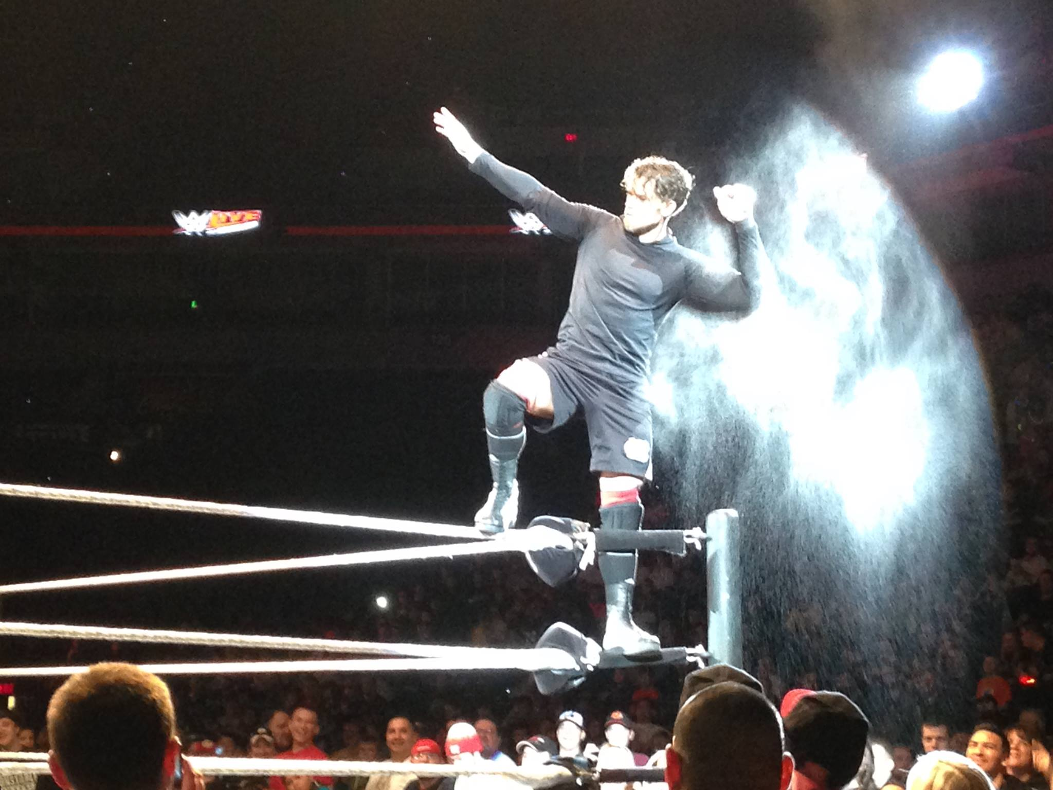 Maddox performing in Minneapolis on March 15, 2015